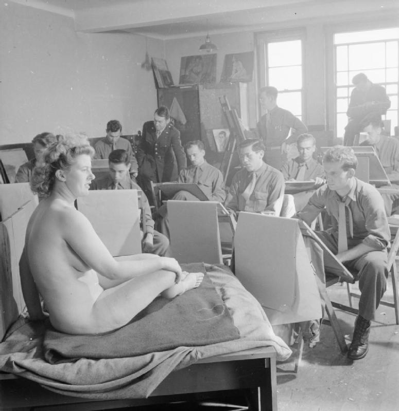 US Army University, Shrivenham, England, UK, 1945 Students take part in a life drawing class at the US Army University, Shrivenham. Left to right, they are: T/5 Robert A Brock, Joseph Corso, Francis Speight, Corporal Frank O'Shinsky, Seymour H Rogoff, John G Wayne, Pfc George E Jeanmard Jr., Joseph Kulesza, Arthur A Buguse and Walter E Bell. According to the original caption, the professional life model is provided by the British Council.